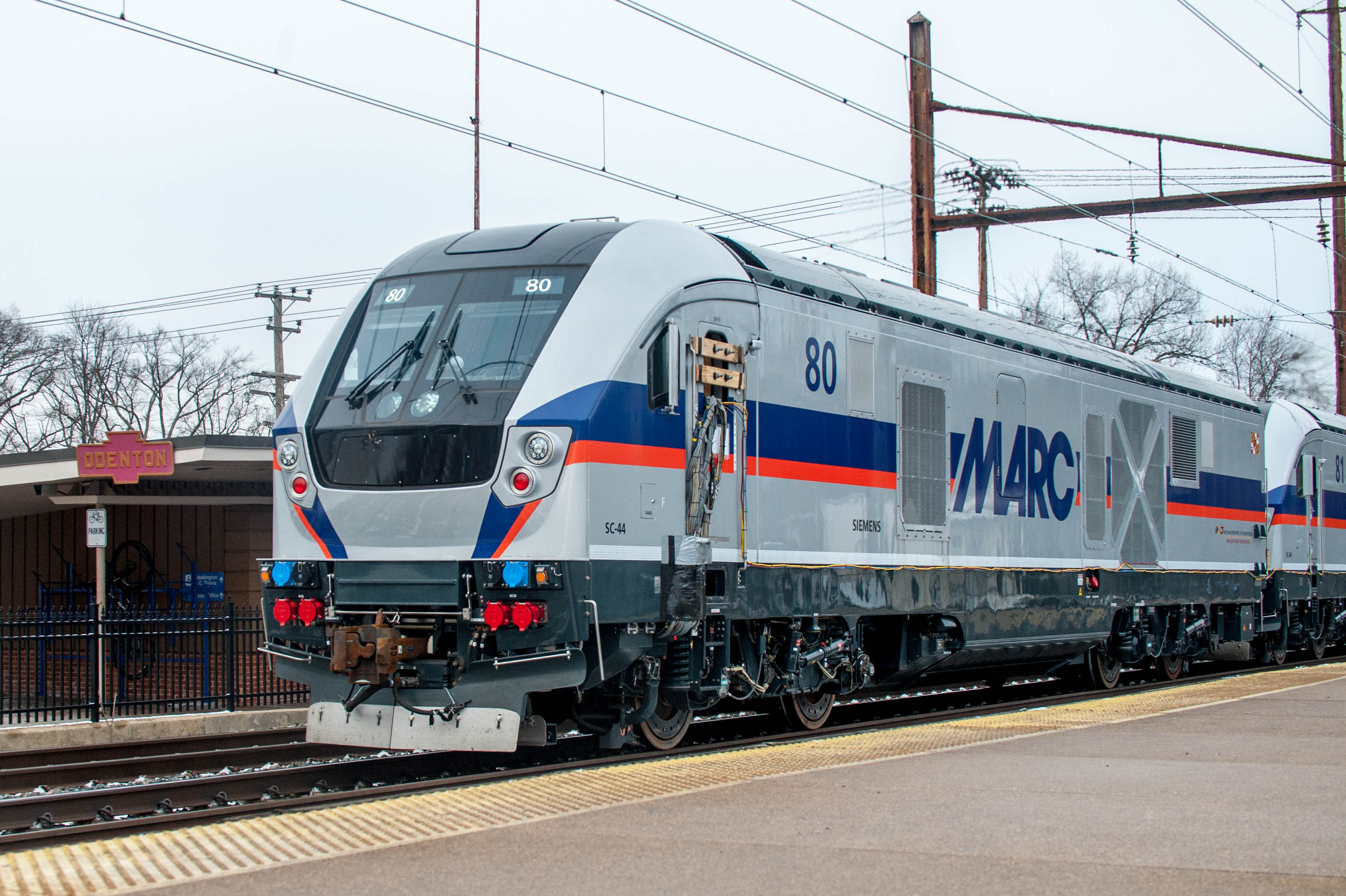 First test run of MARC's new SC-44 Charger Locomotives on the Northeast Corridor